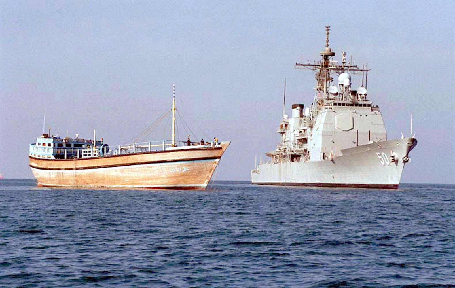 The U.S. Navy guided missile cruiser USS Valley Forge (CG-50) approaches a commercial vessel during operation "Maritime Intercept" in the Persian Gulf on 1 November 1996. Visit, Board, Search, and Seizure (VBSS) Teams onboard the Valley Forge inspected vessels suspected of violating United Nations Sanctions against Iraq.